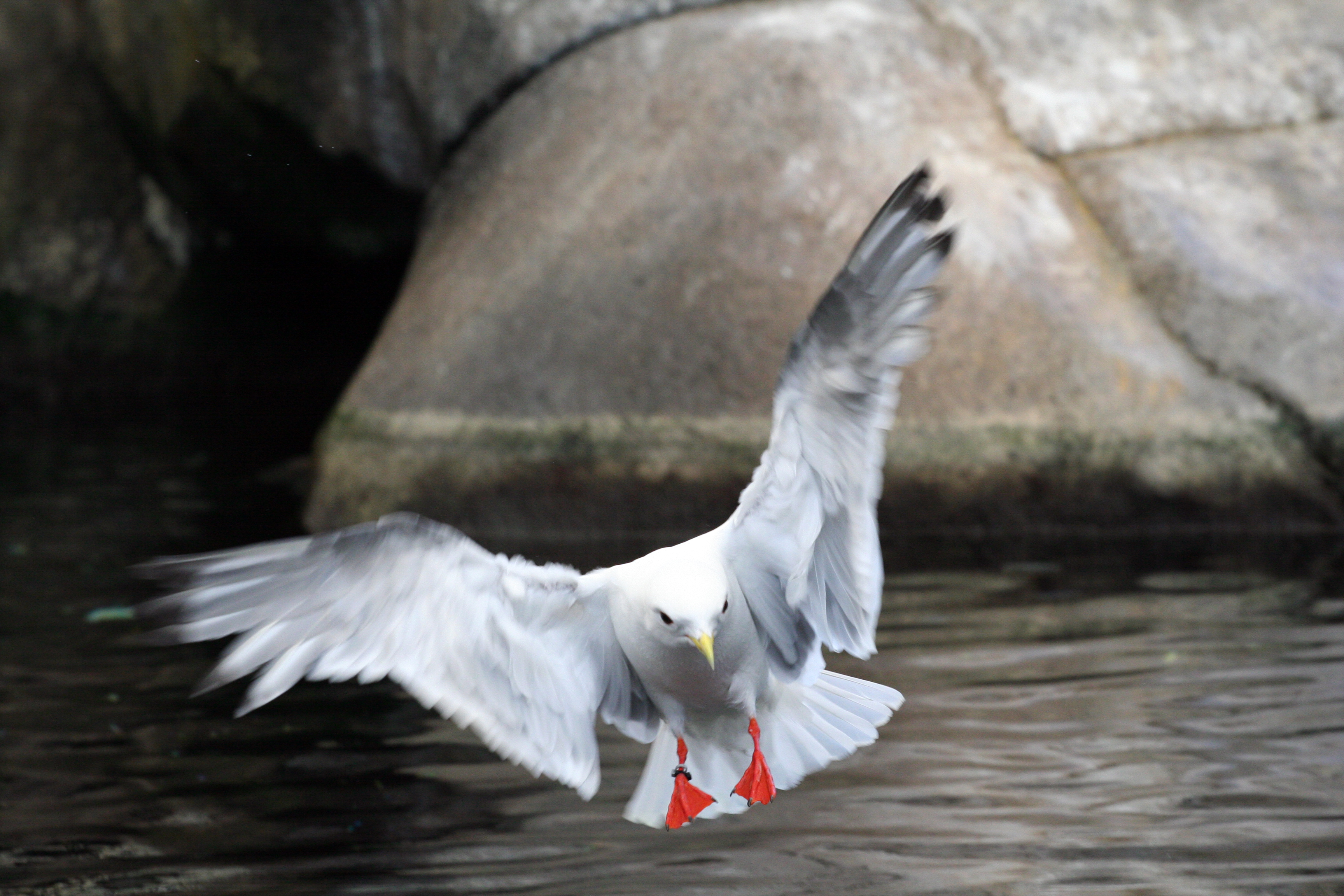 Rissa brevirostris captive in flight, Seward Sea Life Center, Alaska